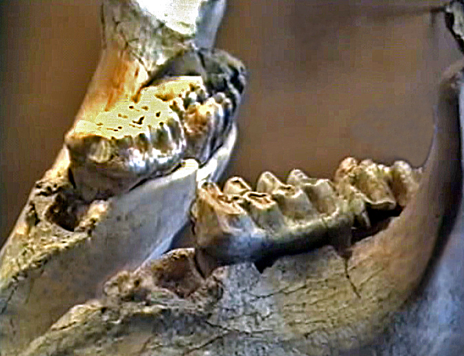 Fossil jaws of "Tetralophodon longirostris", at the Naturhistorisches Museum, Wien